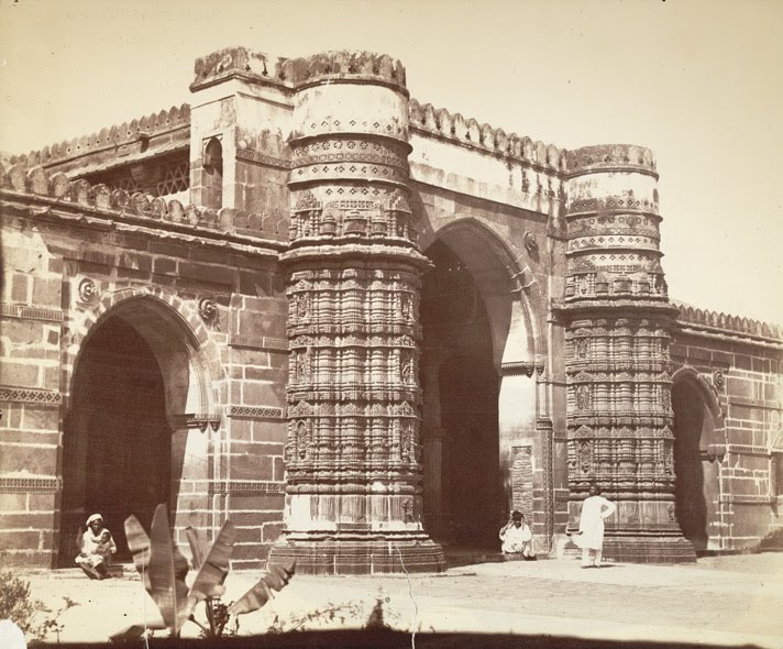 Photograph of the mosque of Qutub Shah at Ahmadabad in Gujarat, taken by Charles Lickfold in the 1880s, part of the Bellew Collection of Architectural Views. The architecture of Ahmadabad reveals a fine synthesis of Hindu and Muslim elements. Qutub Shah (ruled 1451-1459) was the fifth ruler of the Ahmad Shah Dynasty. Despite its name, this mosque was founded in the reign of his father Muhammad Shah.